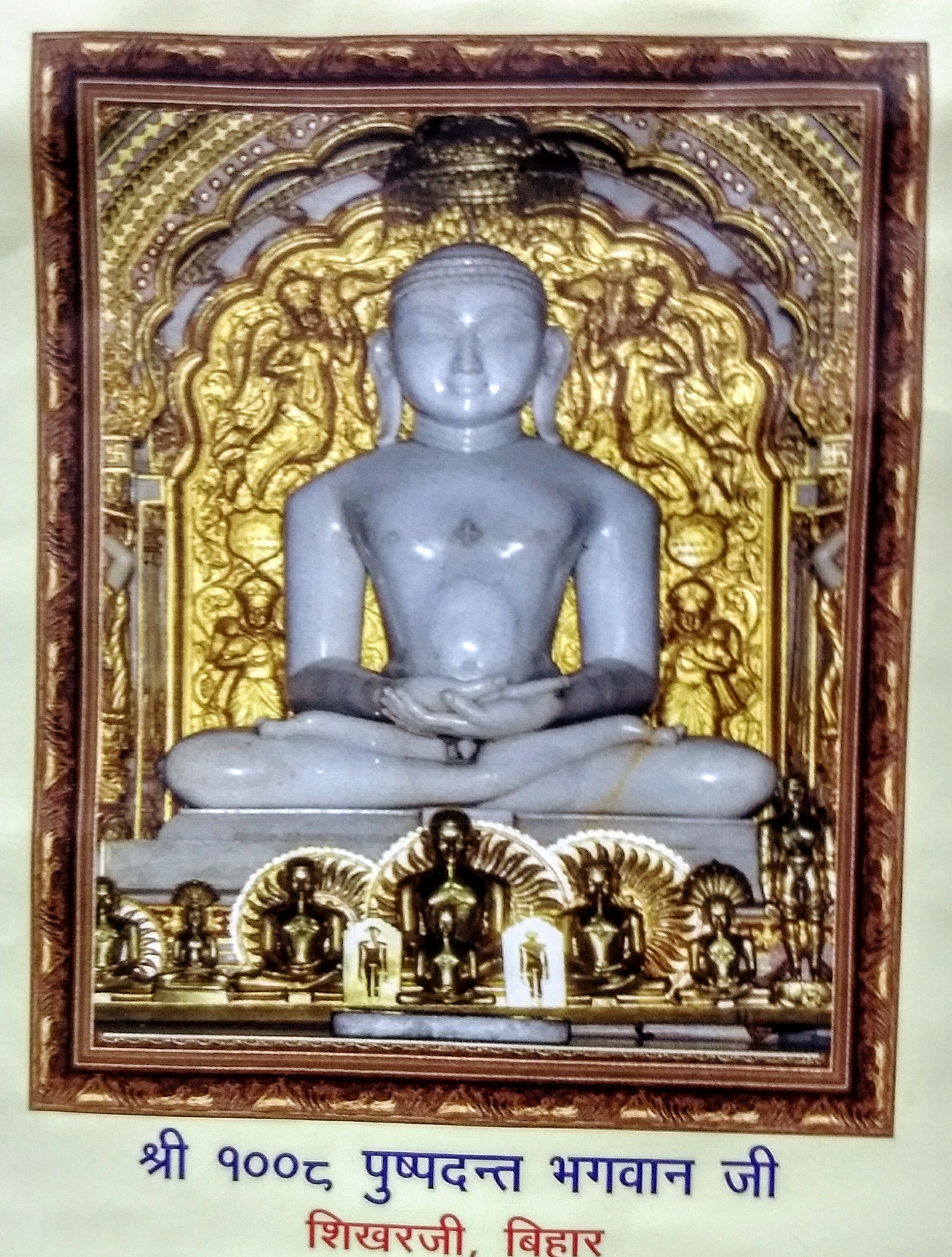 Pushpadanta idol, Shikharji